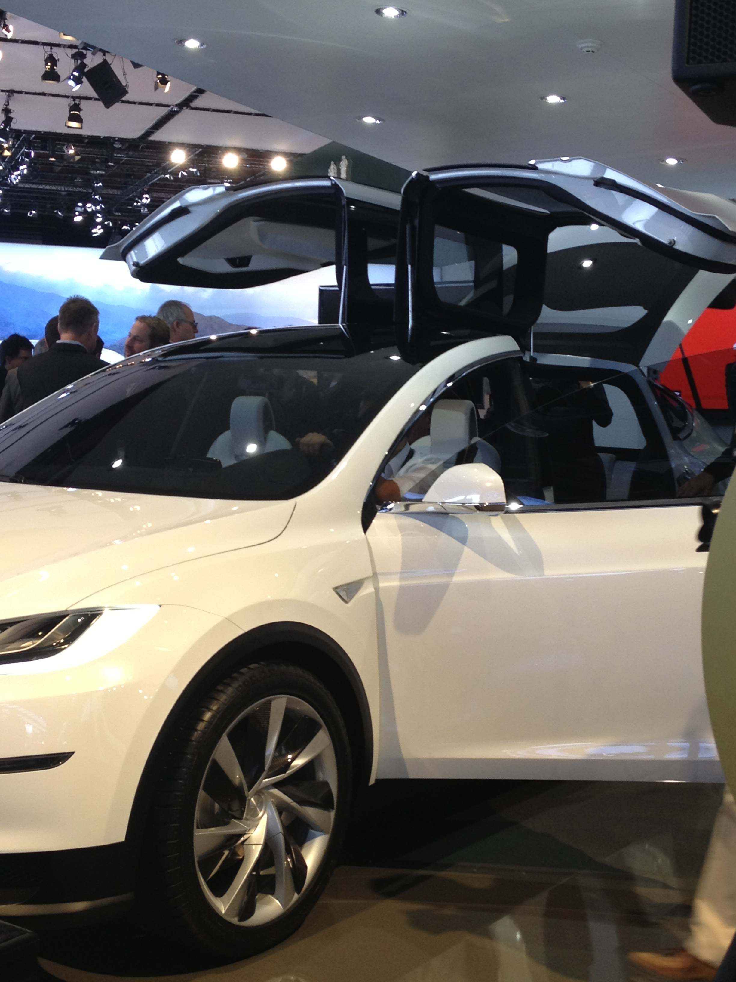 2013 North American International Auto Show Detroit, Michigan